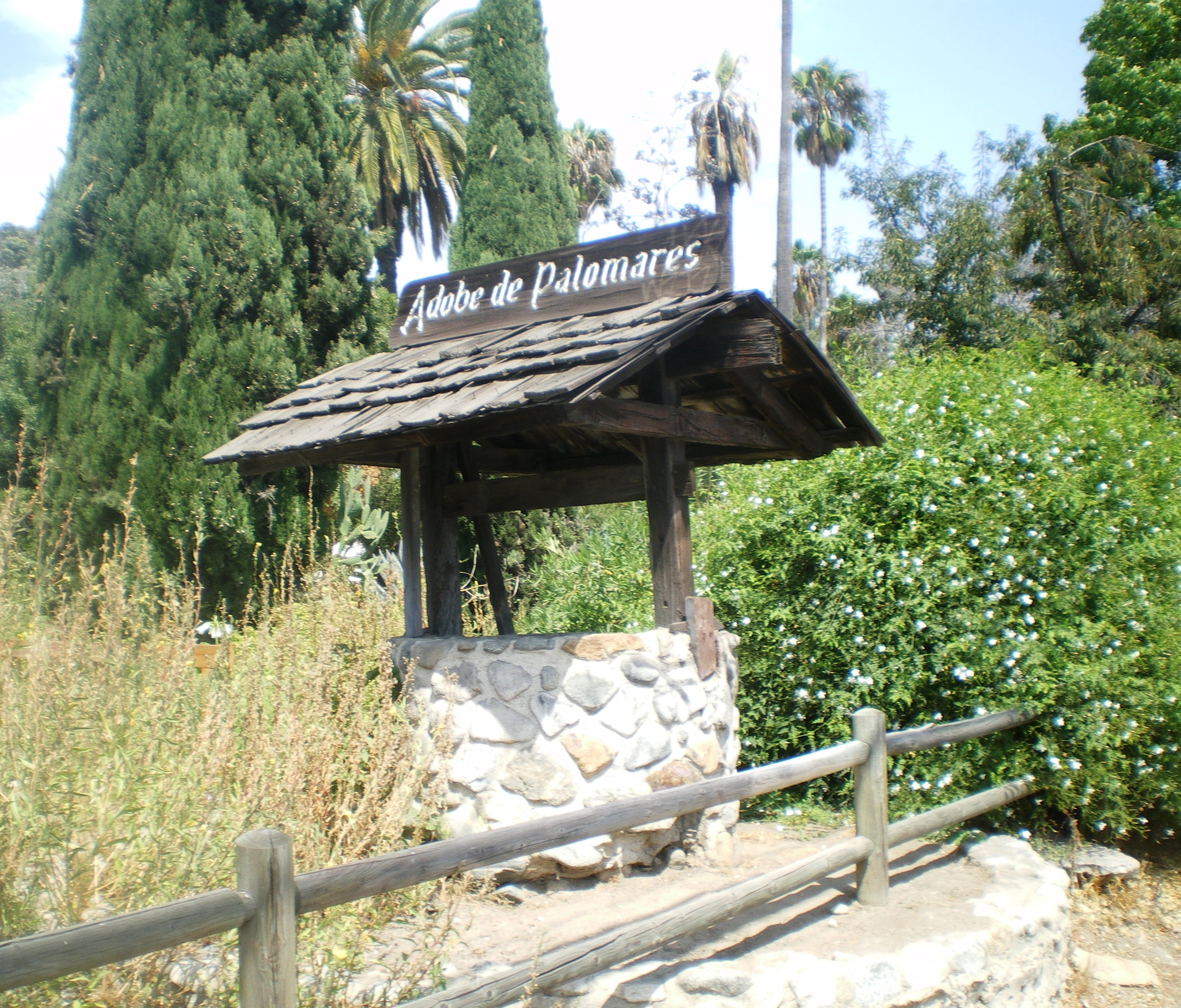 Old well marking the entrance to the Ygnacio Palomares Adobe (Adobe de Palomares) — in Pomona, California.